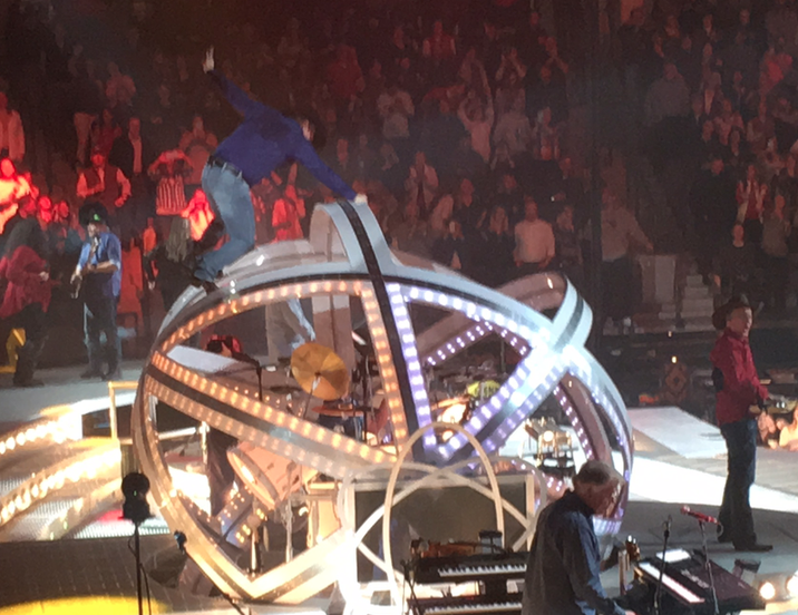 Garth Brooks dancing during his world tour